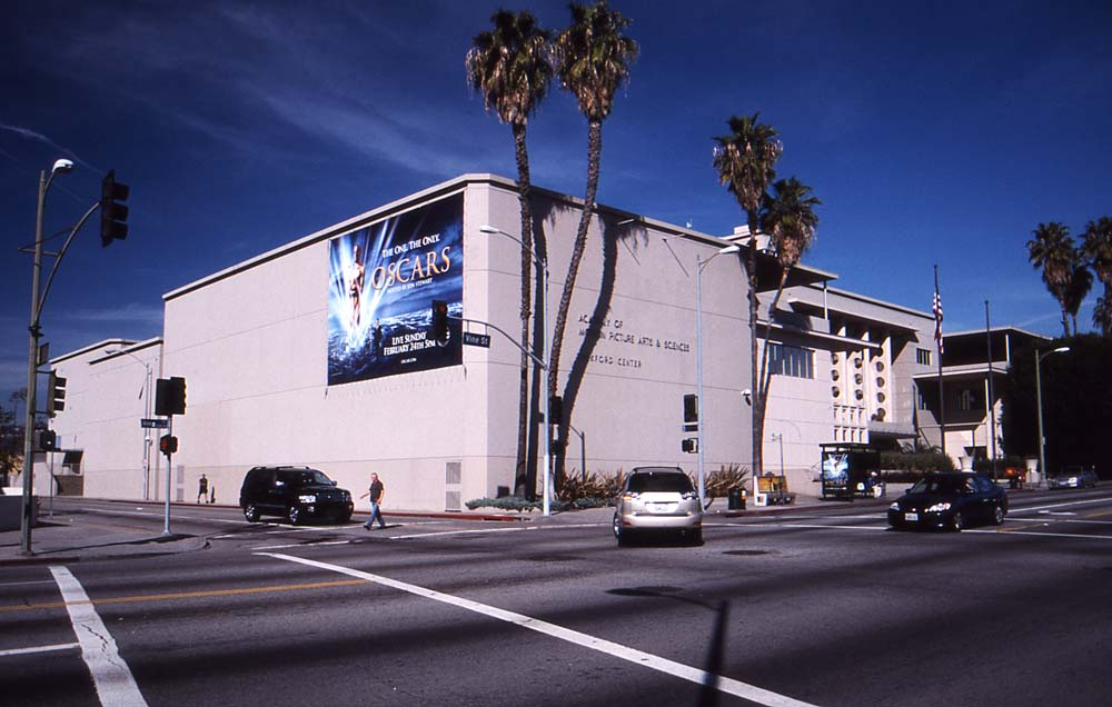 The Mary Pickford Center, 1313 N. Vine St., Hollywood, CA 90028 - Home to the AMIA Office